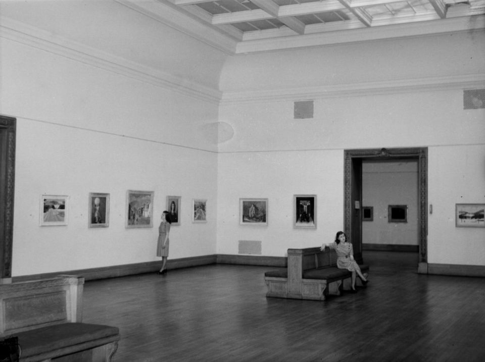 The twin Hélène et Jacqueline Saint-Jean are in a room containing paintings "Art Association of Montreal" (now the Montreal Museum of Fine Arts) on Sherbrooke Street West, Montreal.